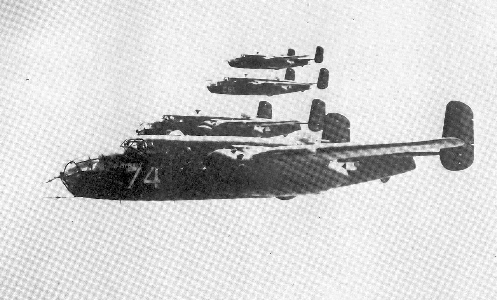 77th Bomb Squadron B-25s Shemya AAF